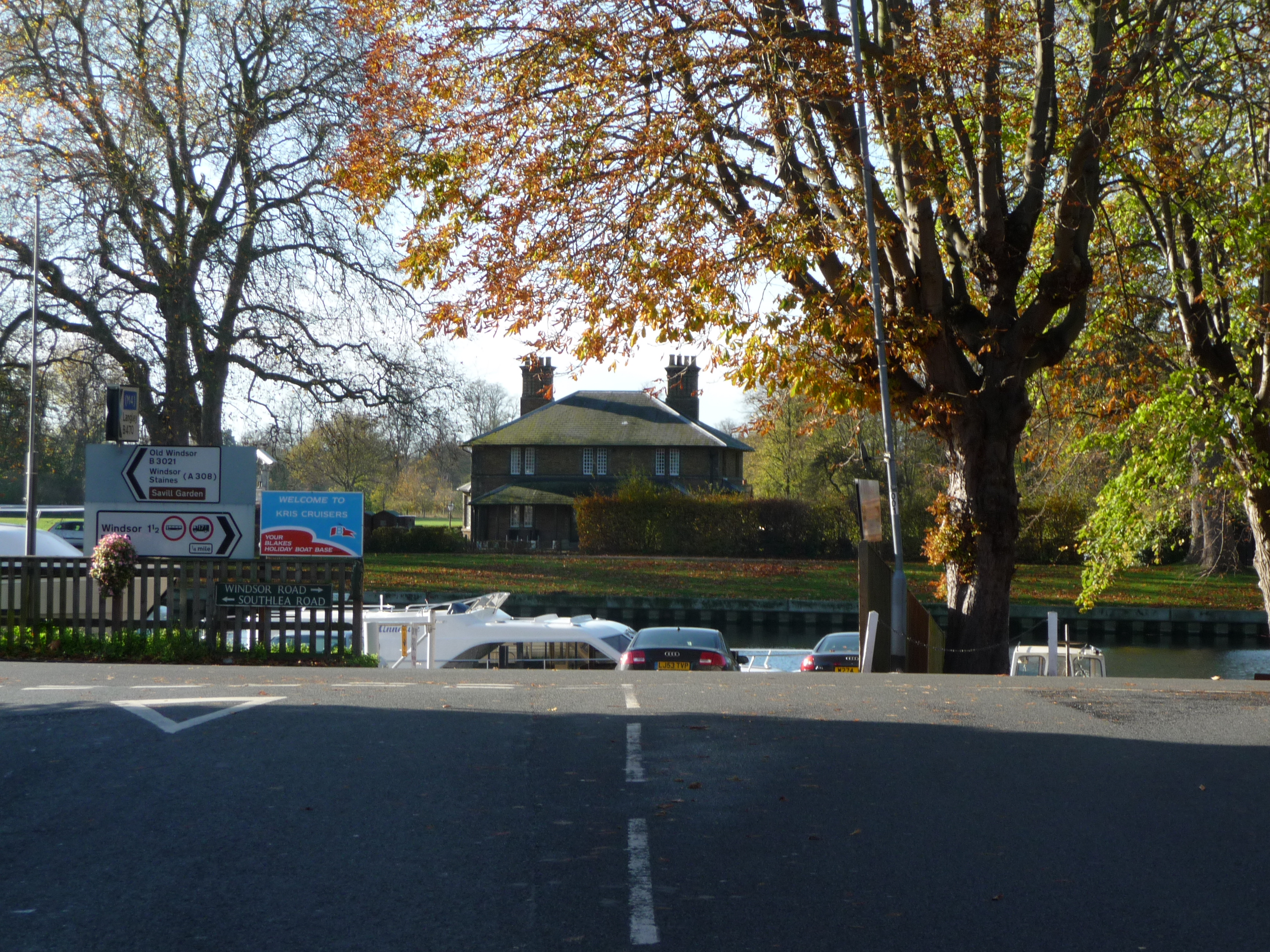 Site of Datchet Bridge (demolished 1851) taken from the Buckinghamshire bank looking down Datchet High Street towards Windsor Great Park